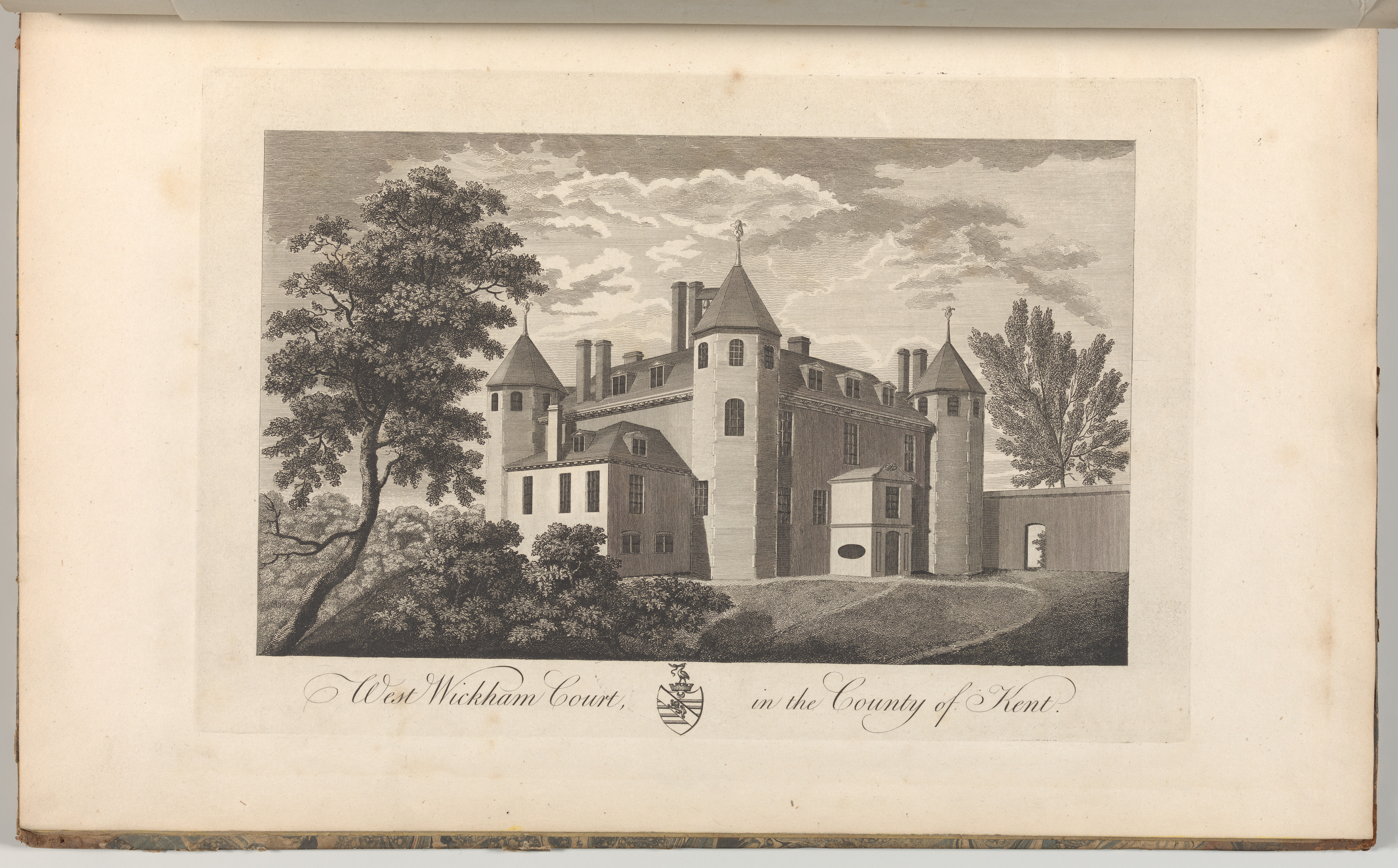 Print; Books